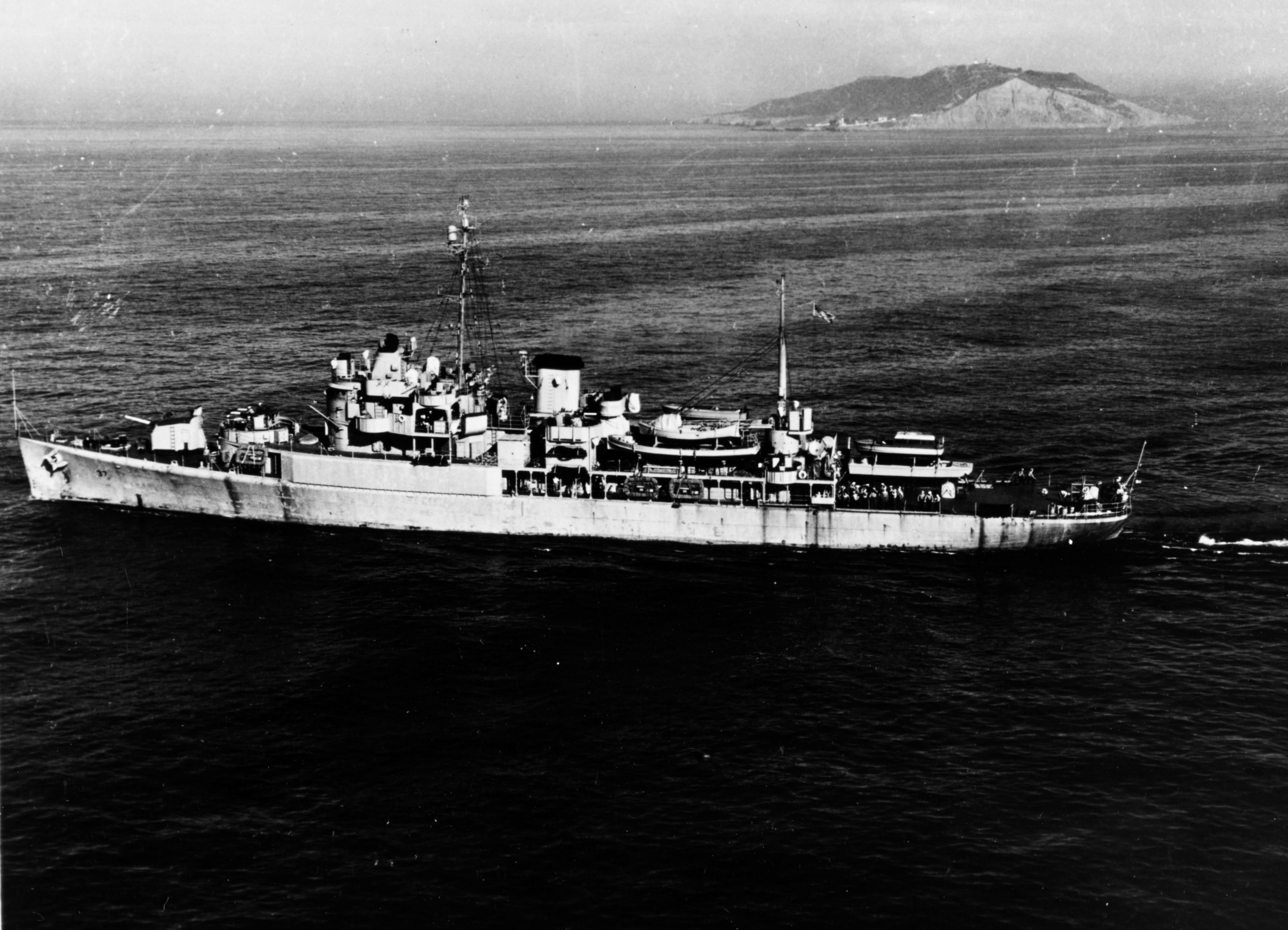 The U.S. Navy small seaplan tender USS Corson (AVP-37) underway shortly after recommissioning in 1951, probably off San Diego, California (USA). Note the three boats stowed on her fantail and the black hull number.